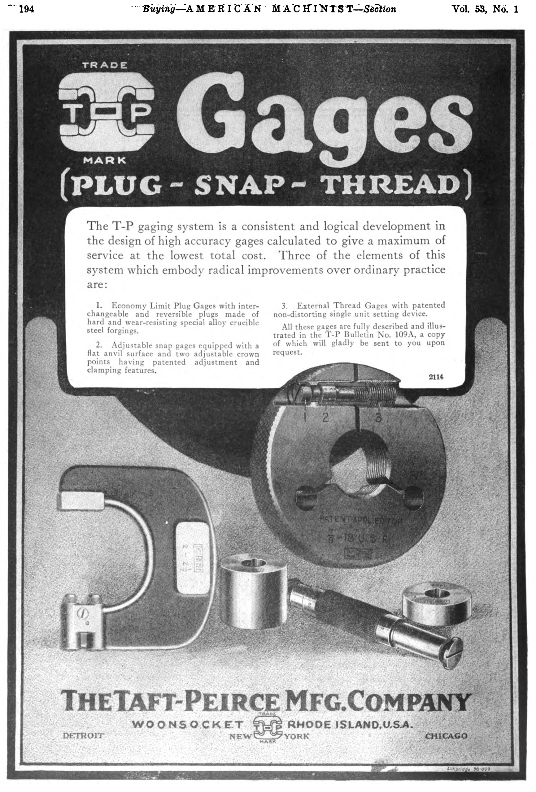 Taft-Peirce gauge advertisement in American Machinist, volume 53, number 1, July 1, 1920, page 194.